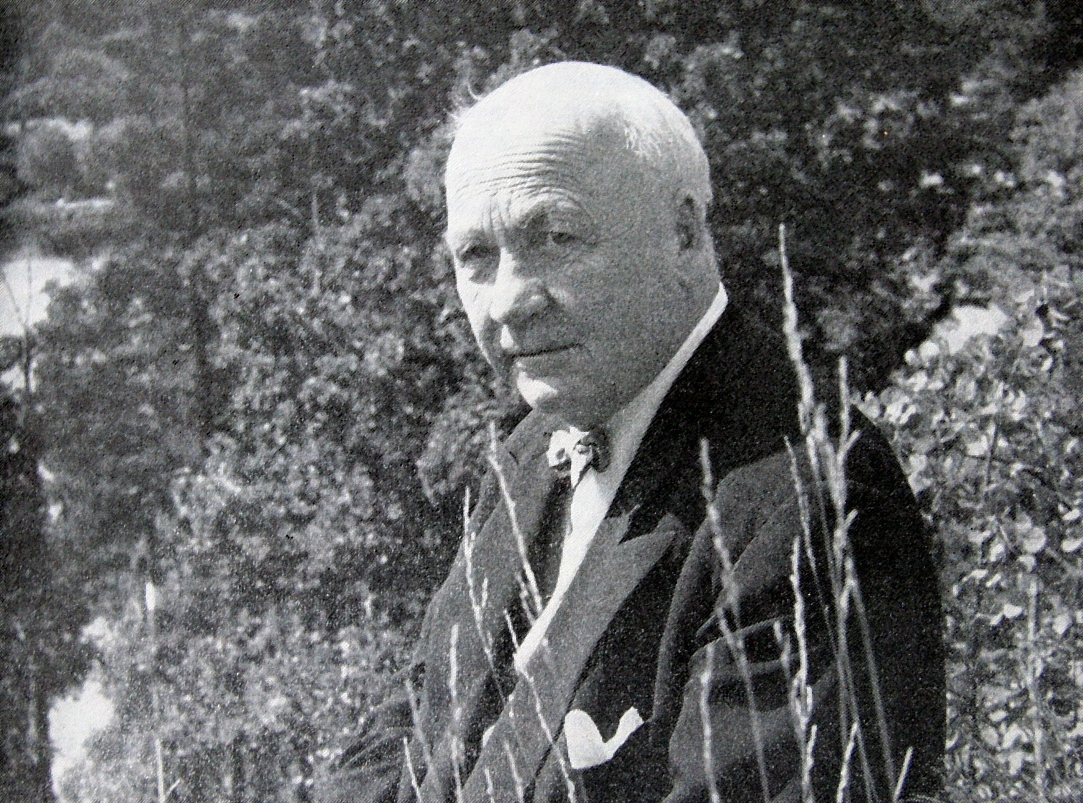 A portrait of the political scientist, writer and newspaper publisher Herbert Tingsten.